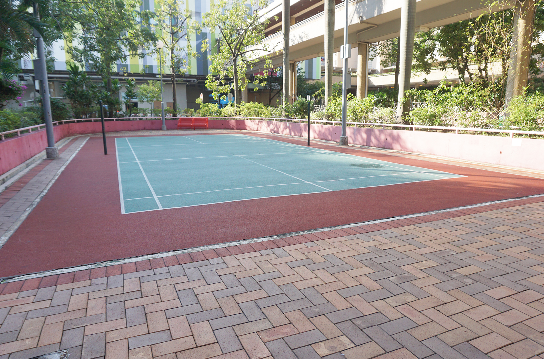 Yuk Po Court in Sheung Shui, Hong Kong.